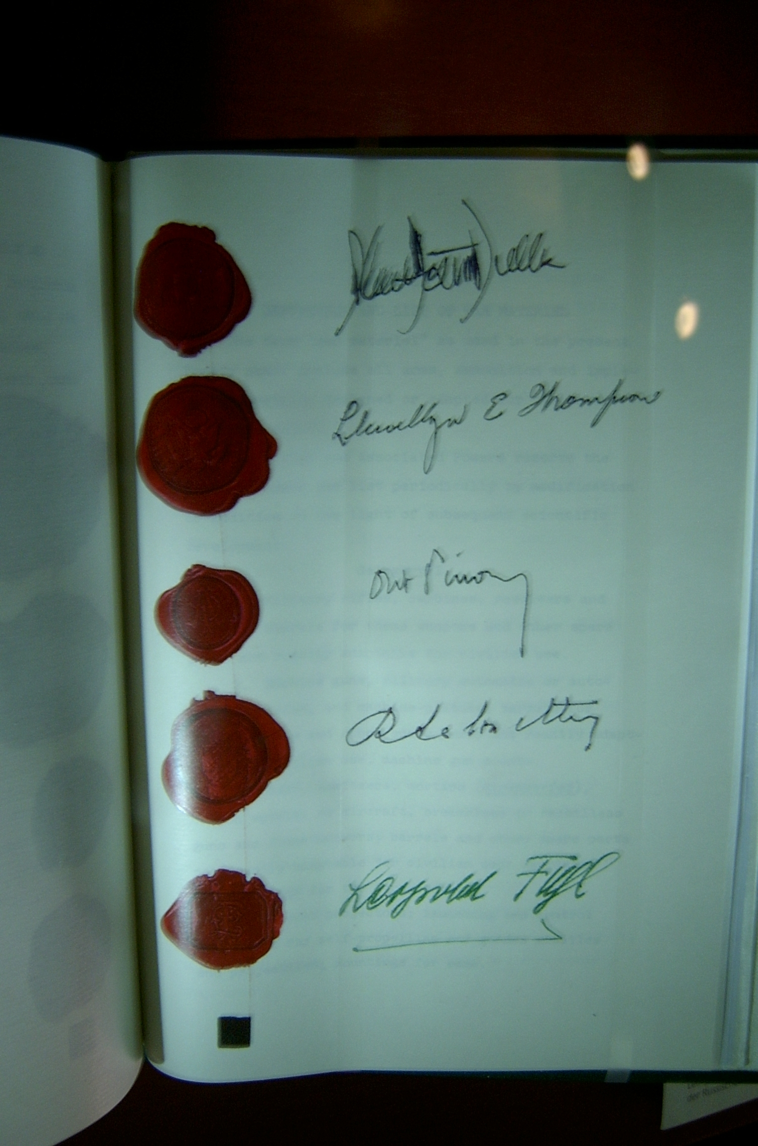 Austrian State Treaty, signatures of the five minsters and cancellor, exhibition 2005 on the Schallaburg